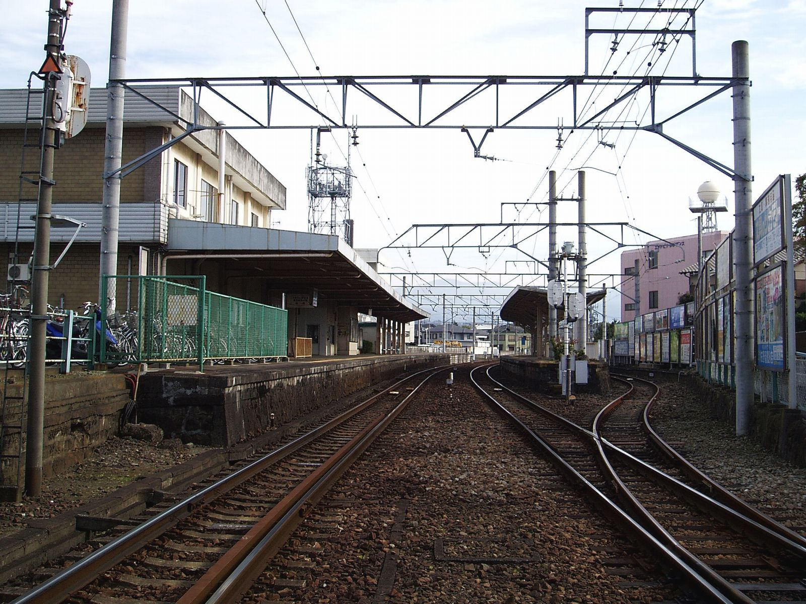 Isuhakone Railway Company, Mishima-Tamachi Sta. 2007.11.26 Photo by Cassiopeia_sweet.